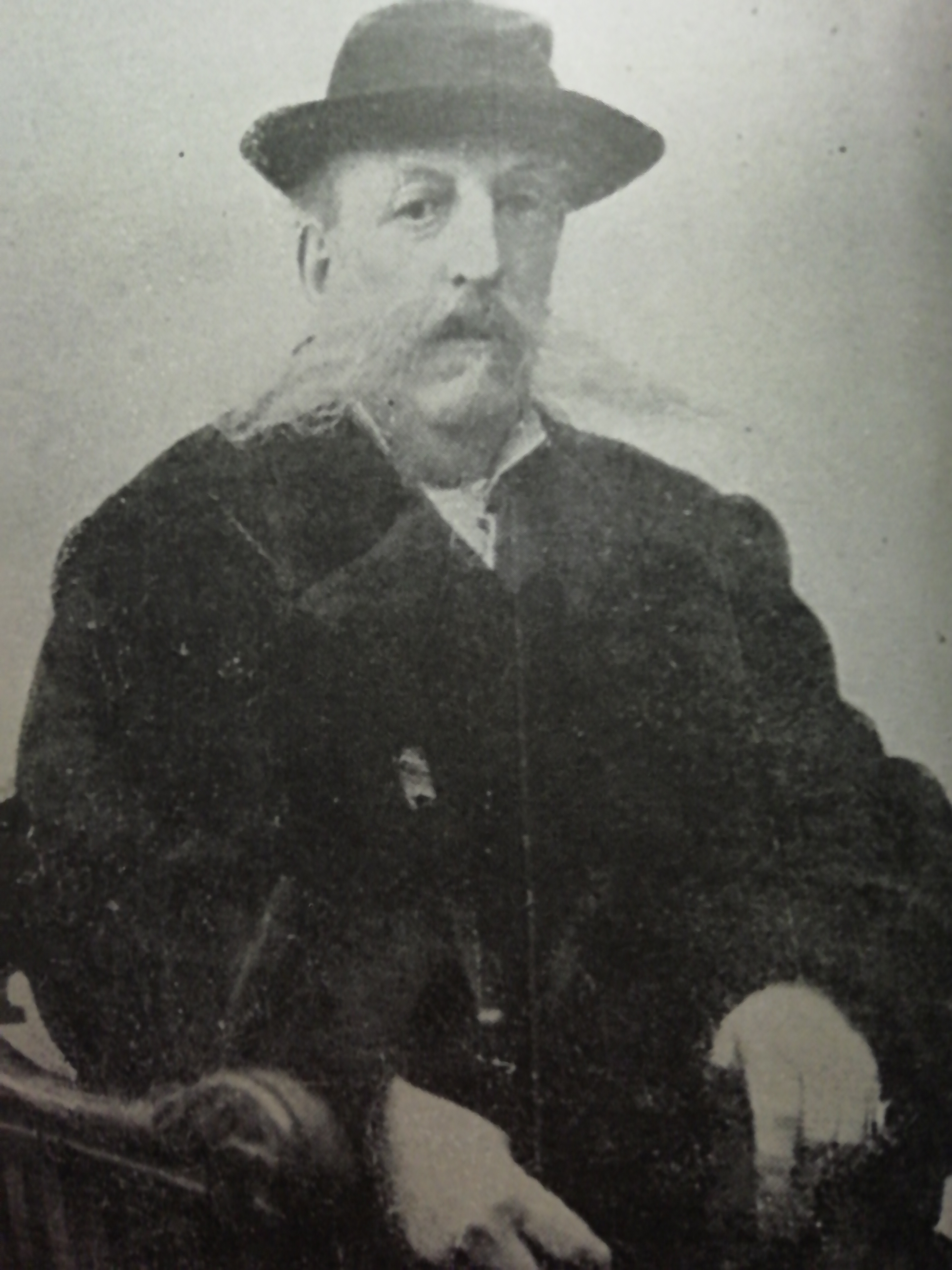 Museum Leone Vercelli